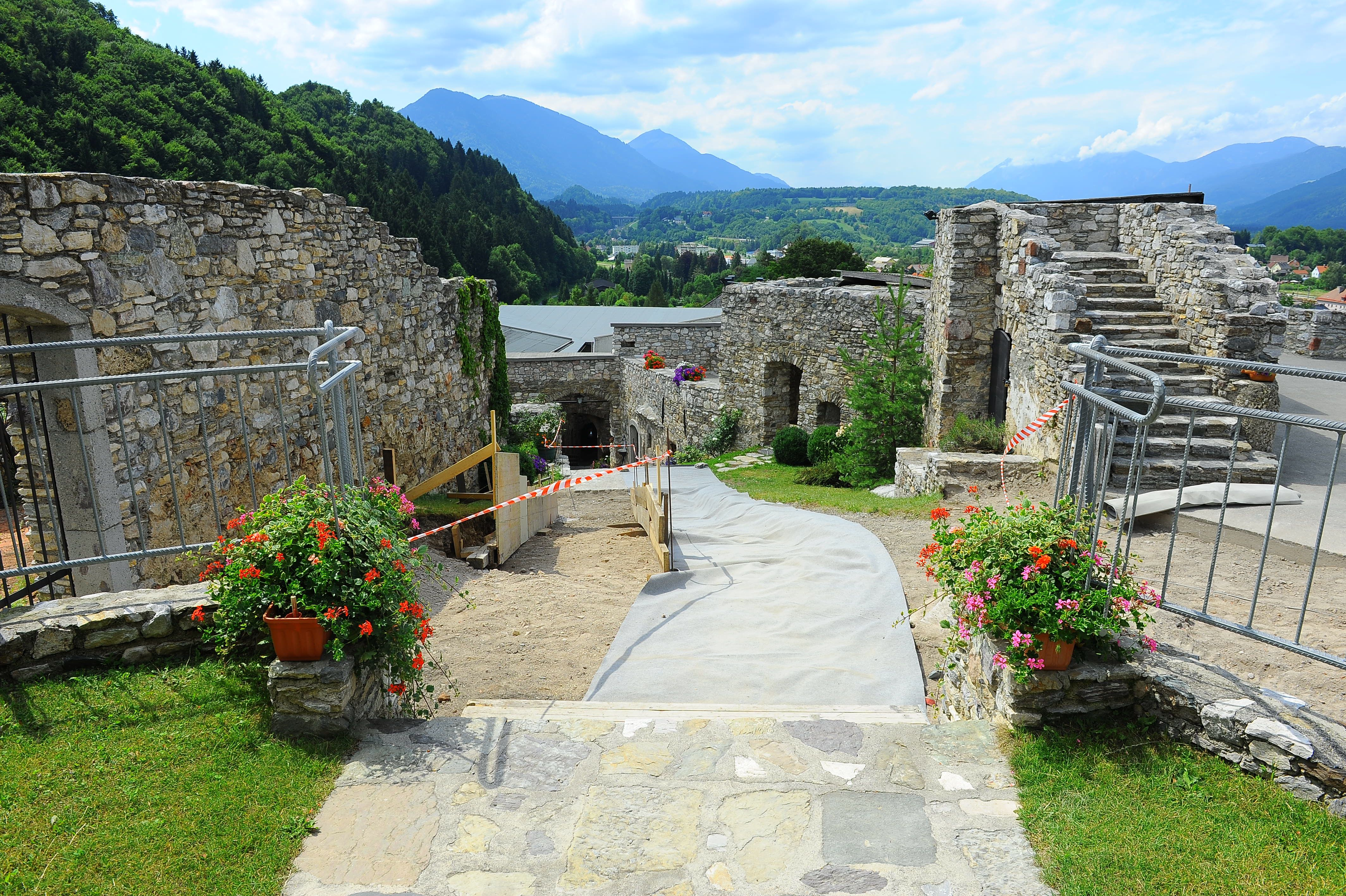 Monastery ruin in Arnoldstein, municipality Arnoldstein, district Villach Land, Carinthia, Austria, EU